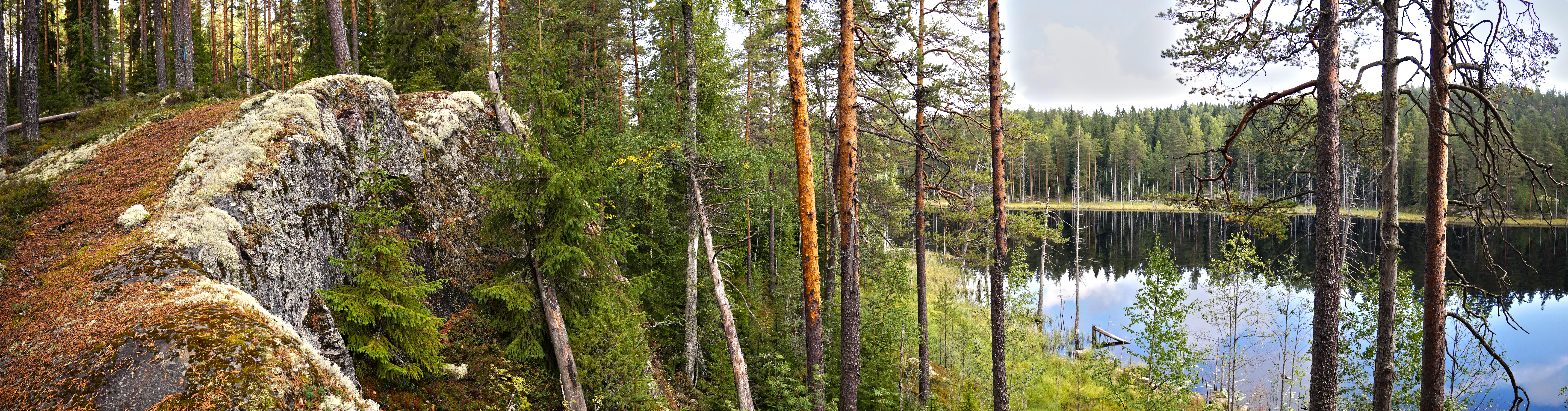 View on the Isojärvi National Park, Finland. On the left is trail and on right is the lake Hevosjärvi.